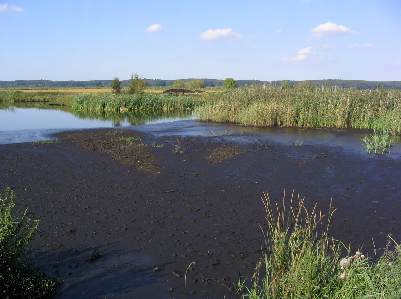 Marsh near Bad Sülze, Mecklenburg-Vorpommern, Germany